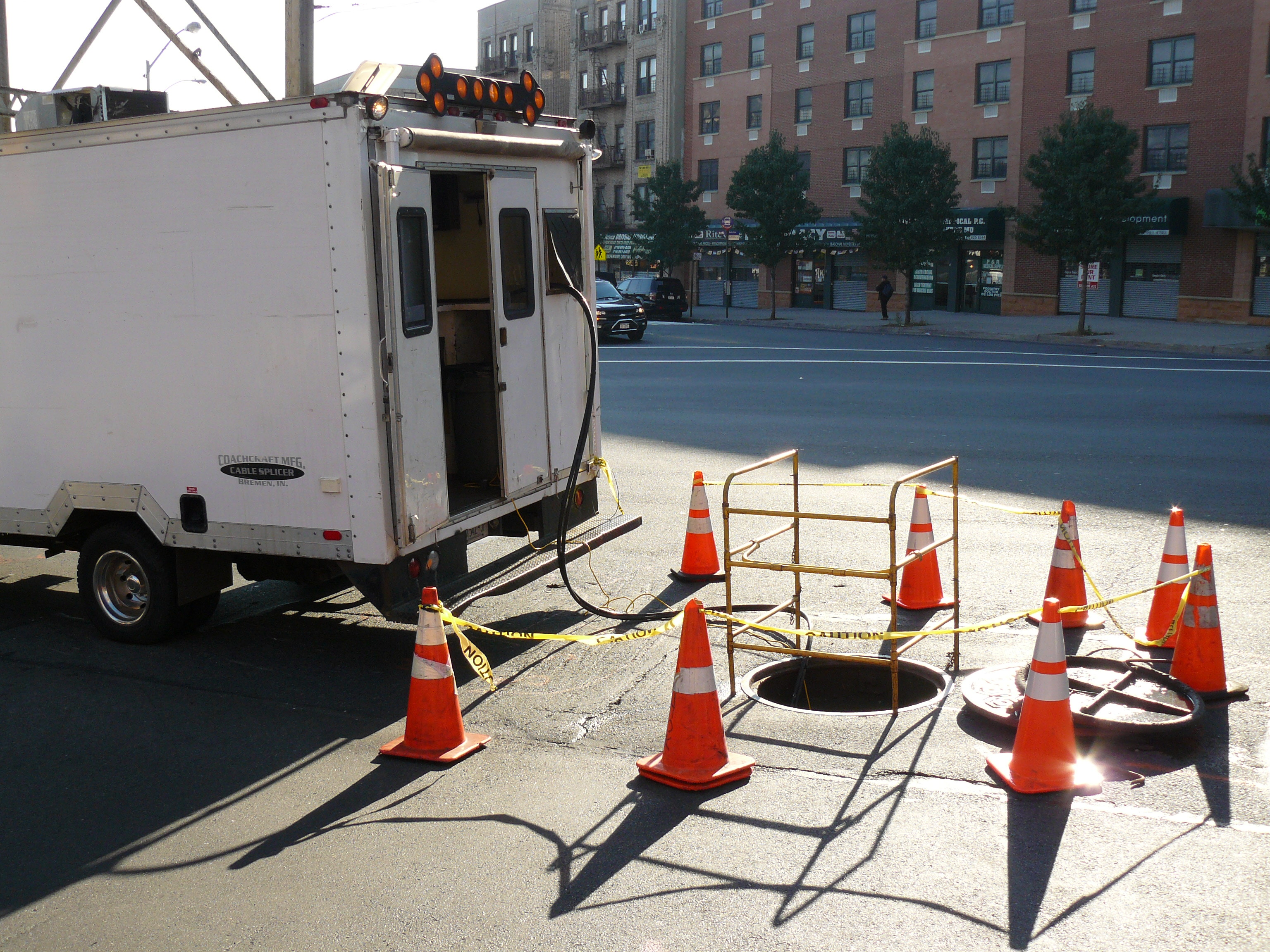 A fiber optic splice lab being used to access underground fiber optic cables for splicing.